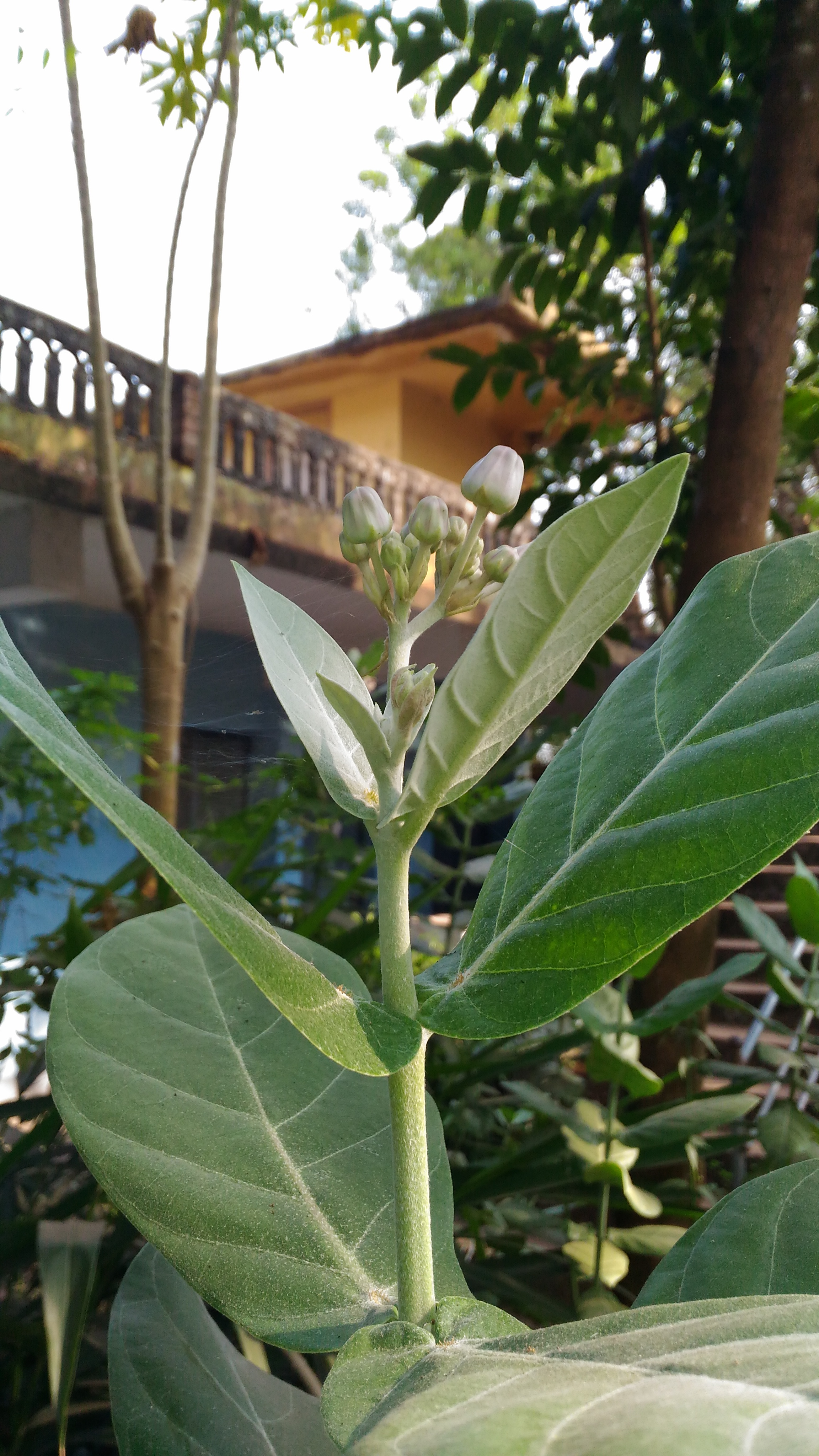 A tipical portion of a Calotropis gigantea plant